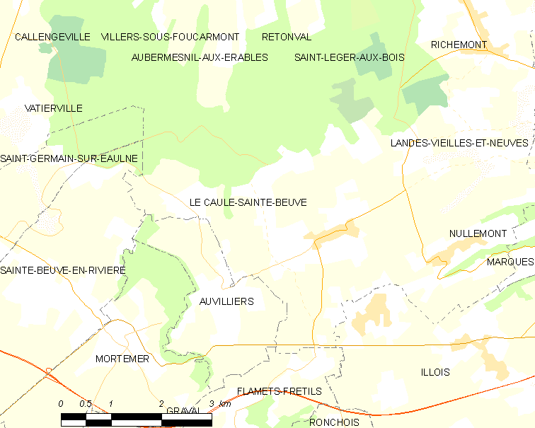 Map of French municipality Le Caule-Sainte-Beuve